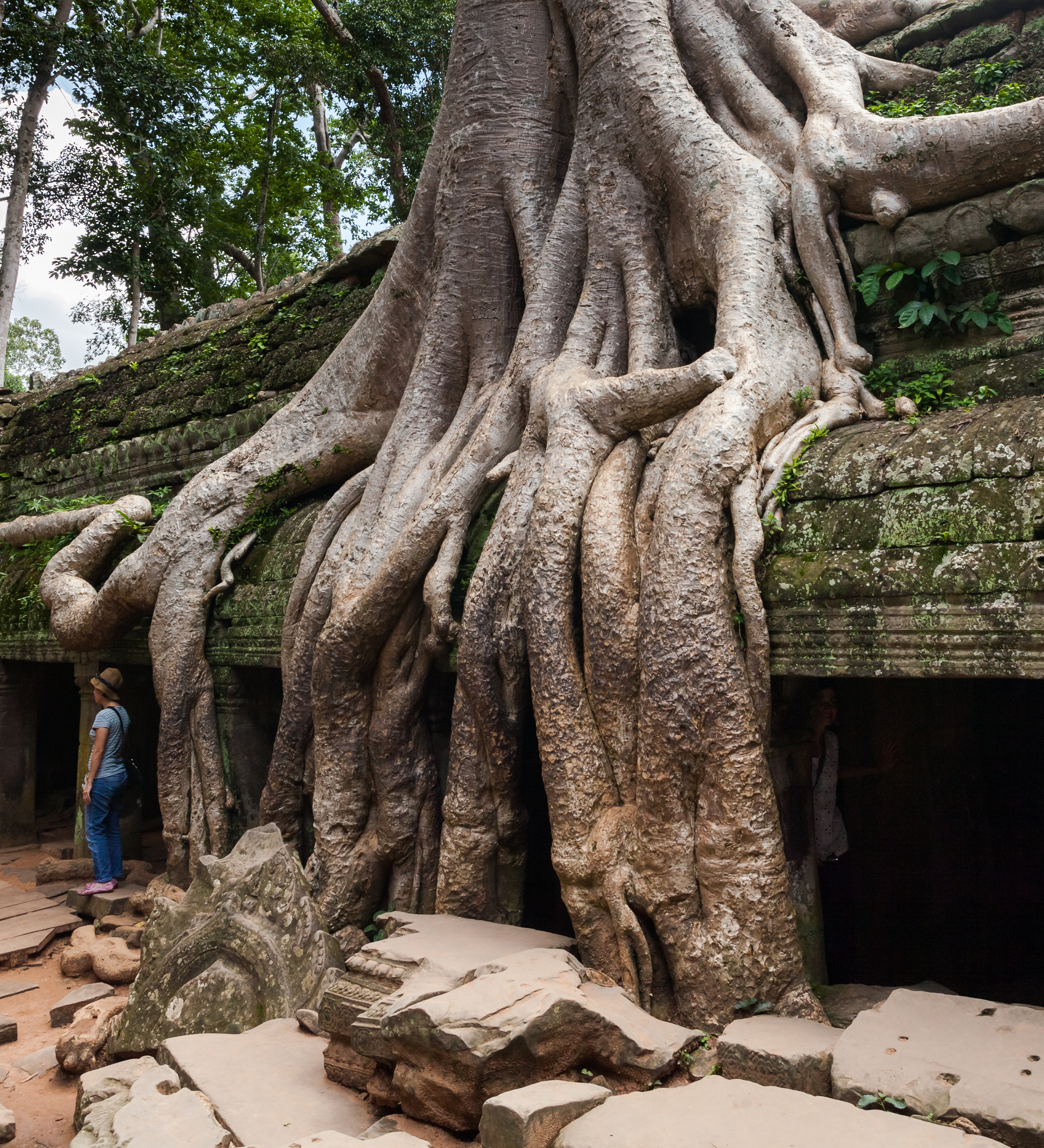 Ta Phrom, Angkor, Cambodia